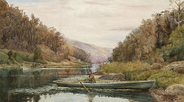 Boatman on the Hawkesbury River, at Cole and Candle Creek, near Akuna Bay, watercolour on paper, 36.5 x 66.0 cm, by Julian Ashton